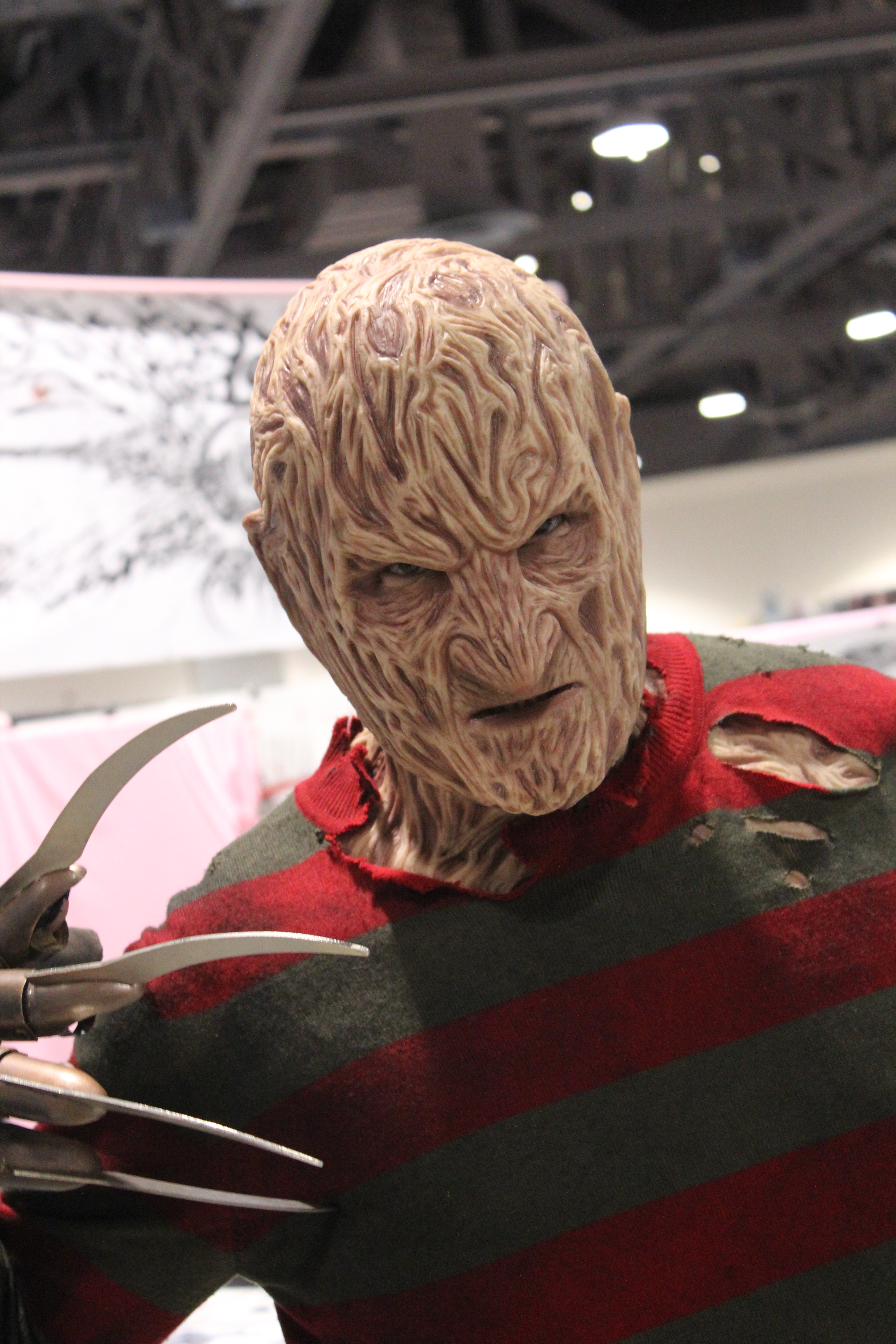 Cosplay at Long Beach Comic & Horror Con 2012.